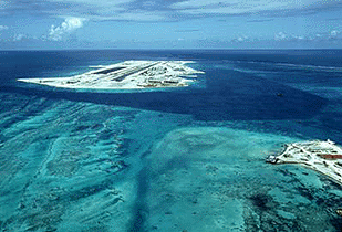 Aerial View Johnston Island as seen from northeast, approaching runway. Western part of sand island seen on the right side